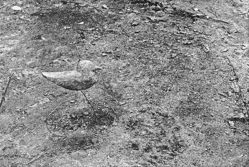 A photograph of a model duck, with camoflage.